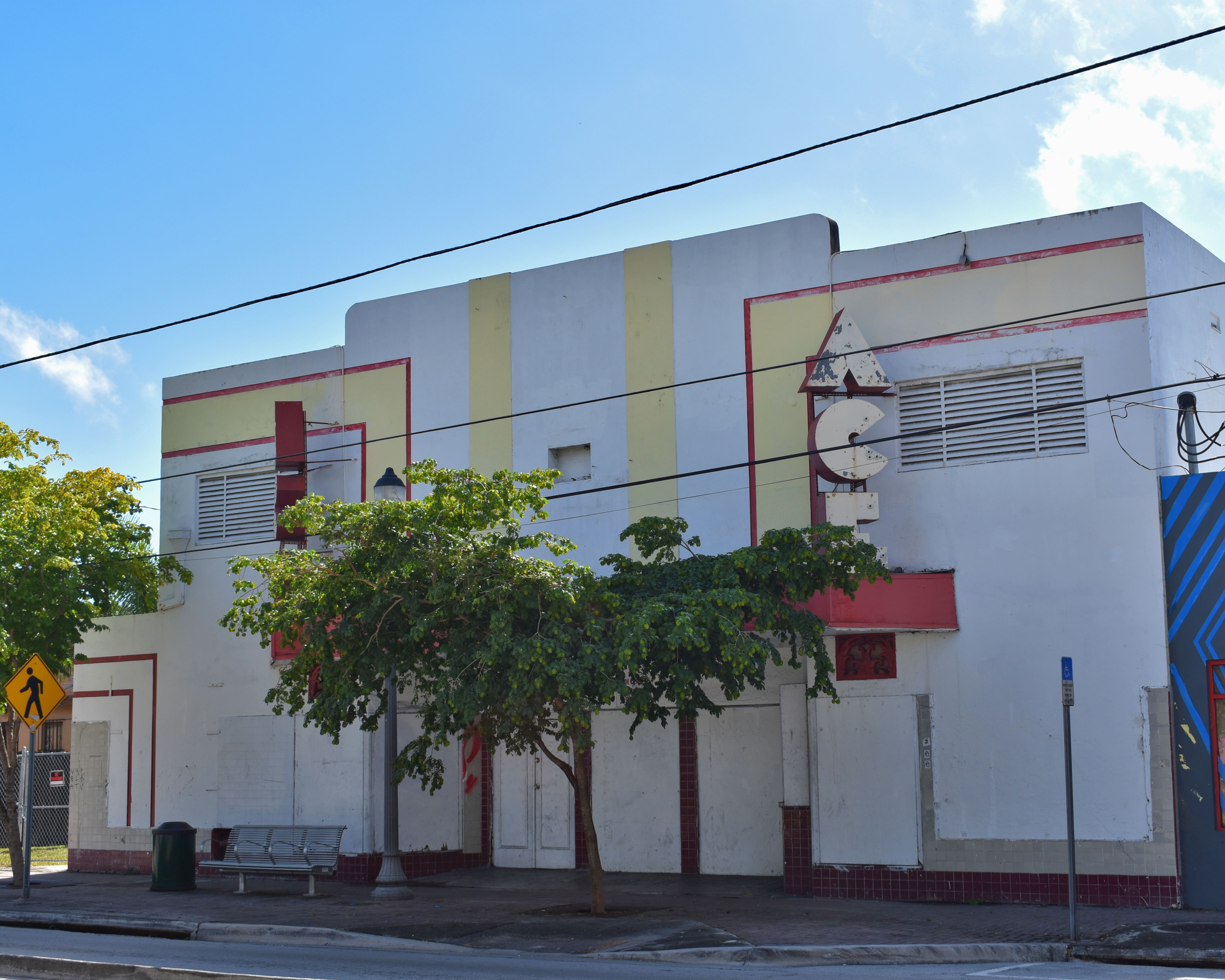 Ace Theatre (1930) in Coconut Grove, Florida, was listed on the National Register of Historic places in 2016.